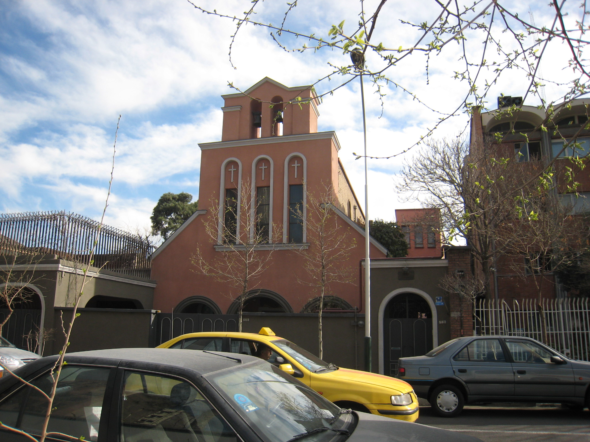 Catholic Cathedral of the Archdiocese of Ispahan, in Tehran